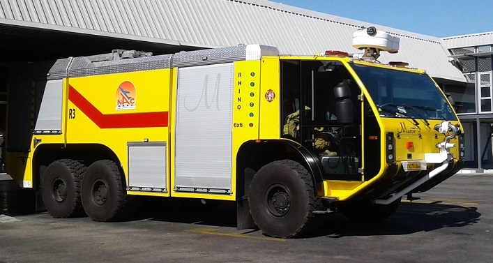 Merce Rhino Fire Engine 6 X 6 at Hosea Kutako International Airport